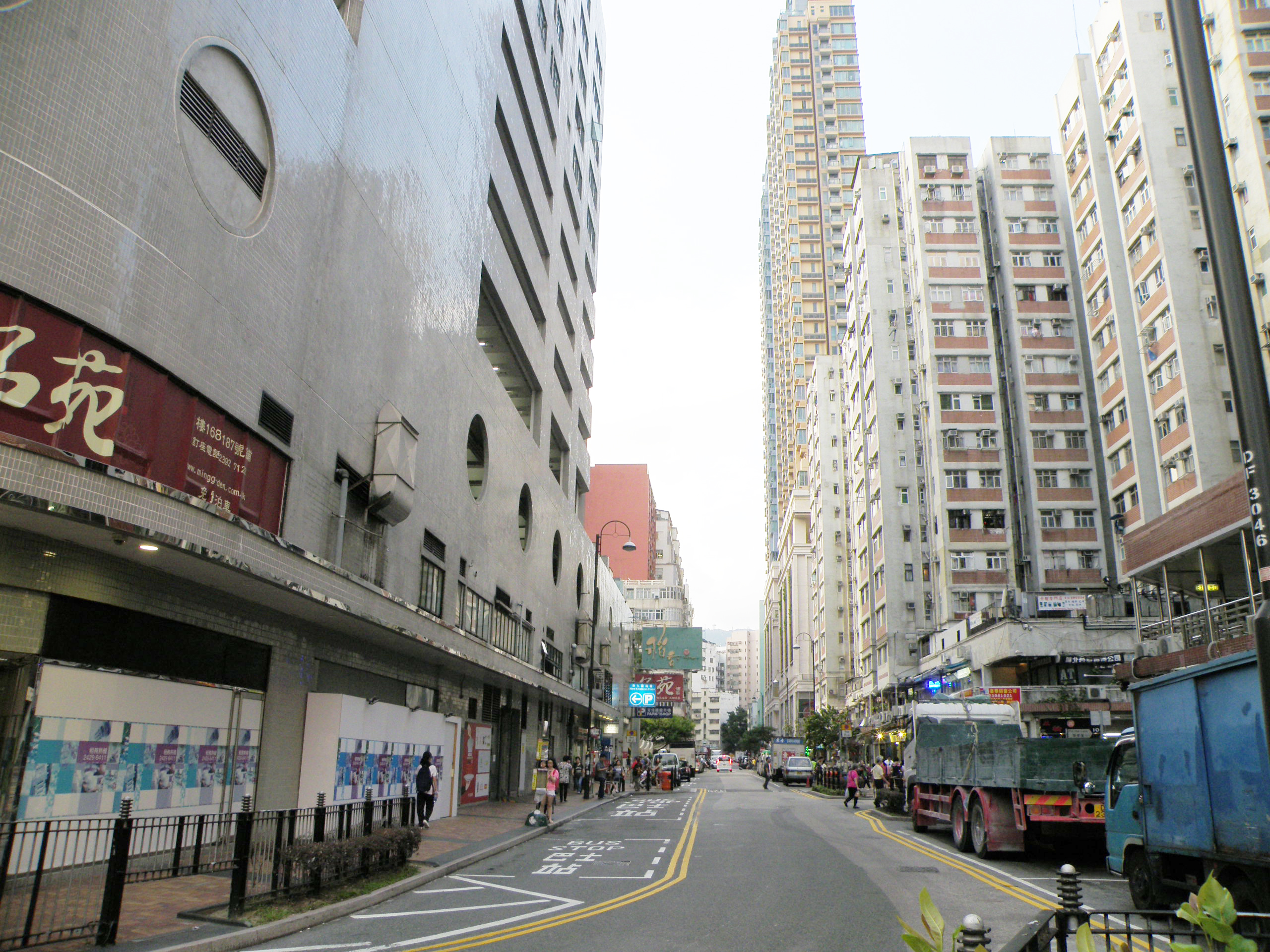 Beech Street in Tai Kok Tsui, Hong Kong